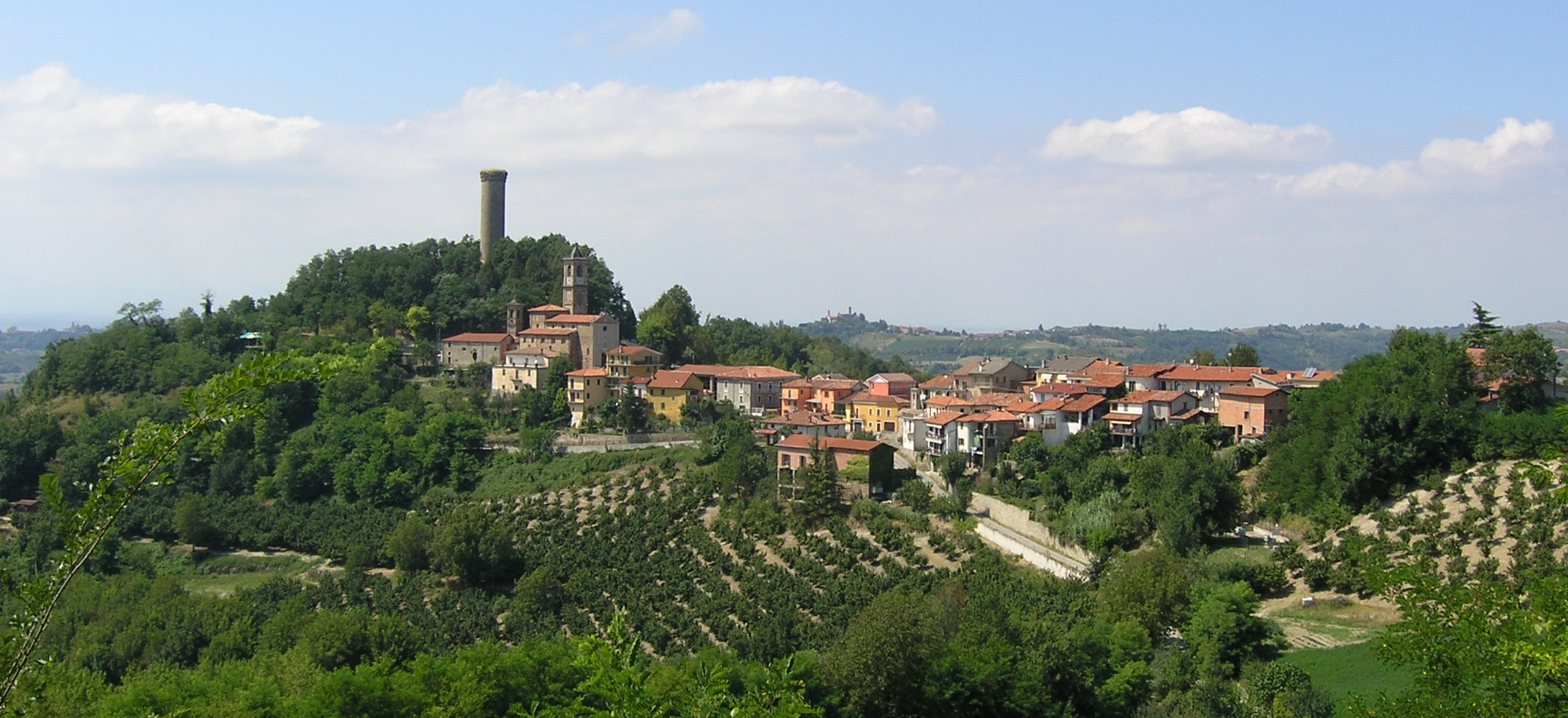 Landscape of Castellino Tanaro (Italy)